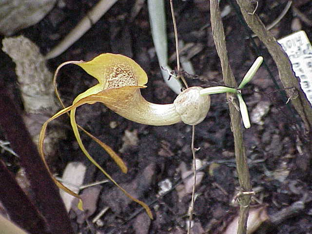 Species: Pararistolochia promissa Family: Aristolochiaceae Image No. 4